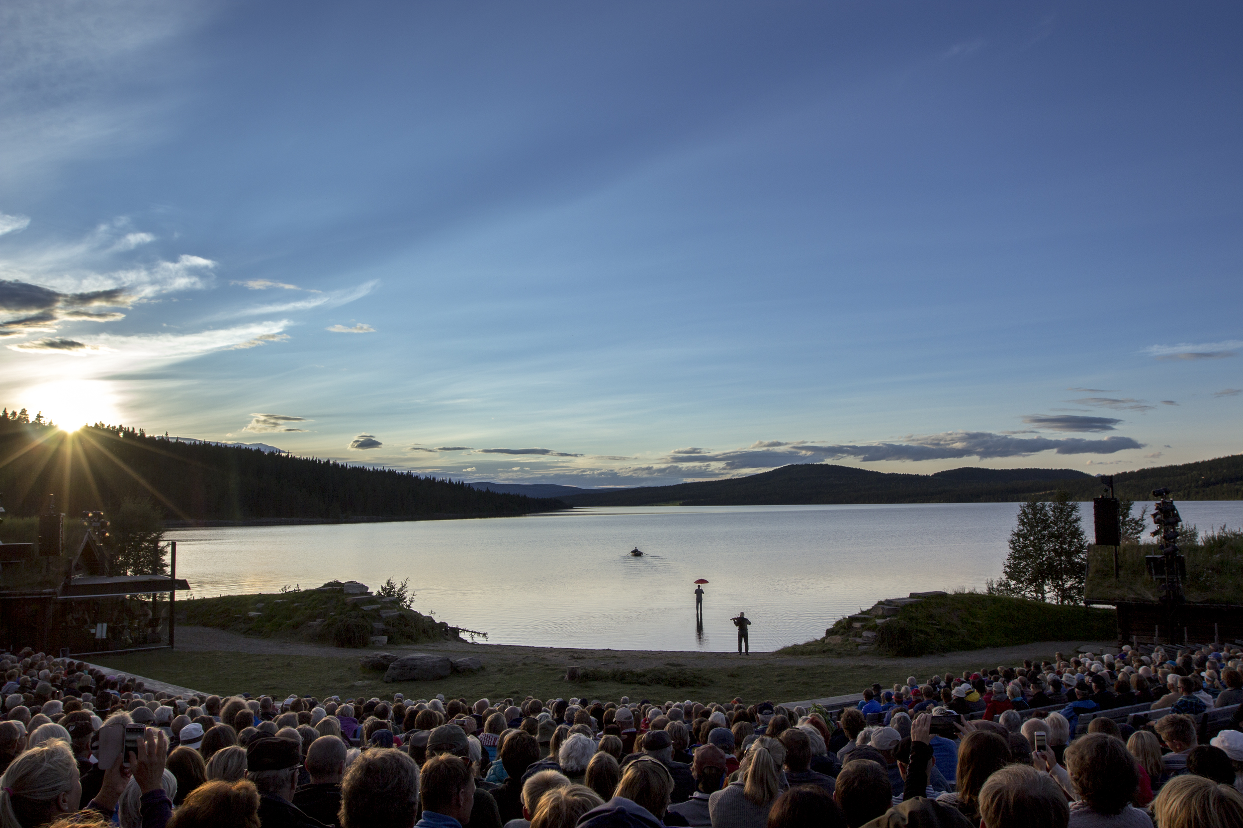 Mother Åse dies as the sun sets by lake Gålåvatnet.